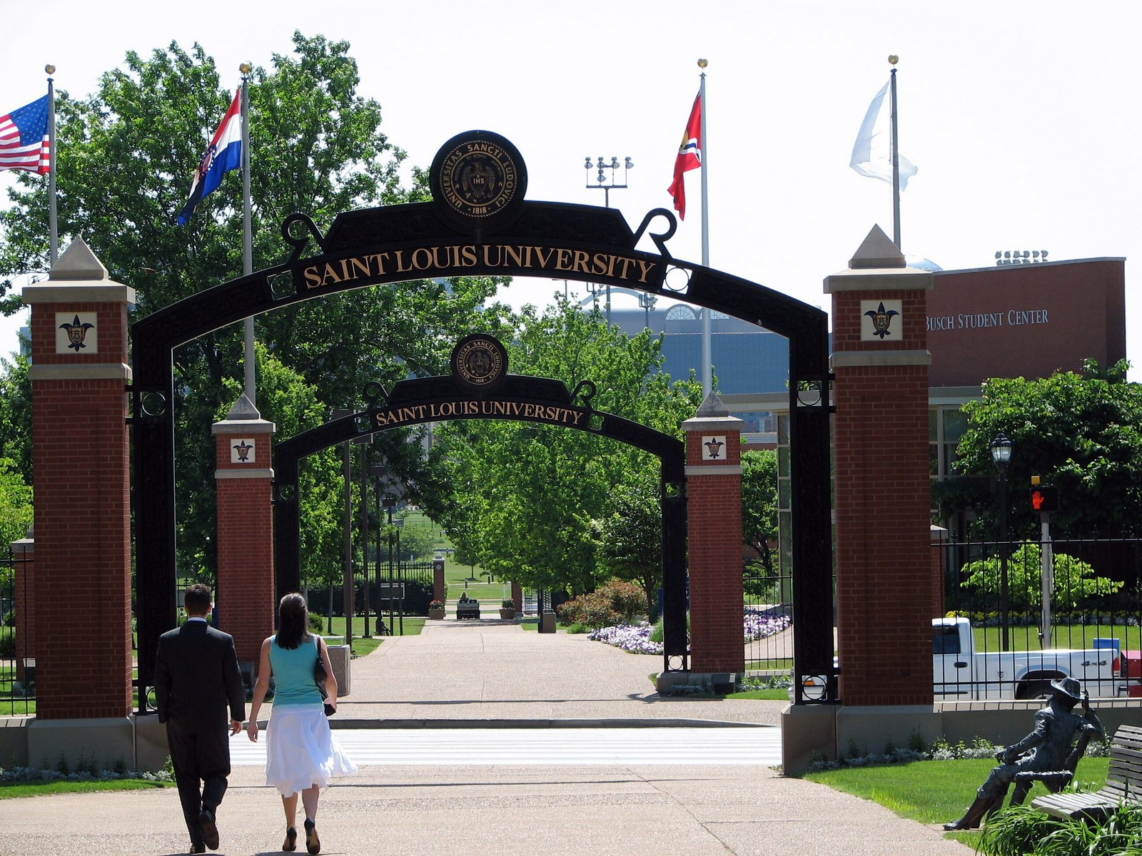 Wilson Delgado, taken in May, 2007, looking East on the SLU mall (formerly West Pine Boulevard).